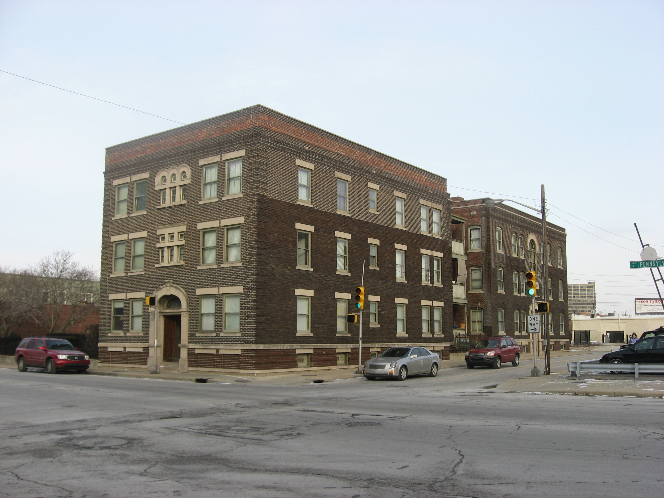 Front of The Sylvania, located at 801 N. Pennsylvania Street in Indianapolis, Indiana, United States. Built in 1906, it is listed on the National Register of Historic Places as one of the "Apartments and Flats of Downtown Indianapolis Thematic Resources".